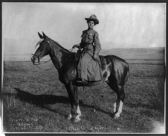 Vintage images of Cowboys and Cowgirls and their lifestyles.